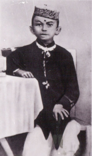 Young Gandhi, at the age of 7, in 1876.